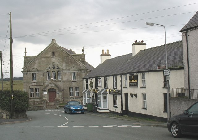 Y Goron PH and Capel Seion Wesleyan Methodist Chapel